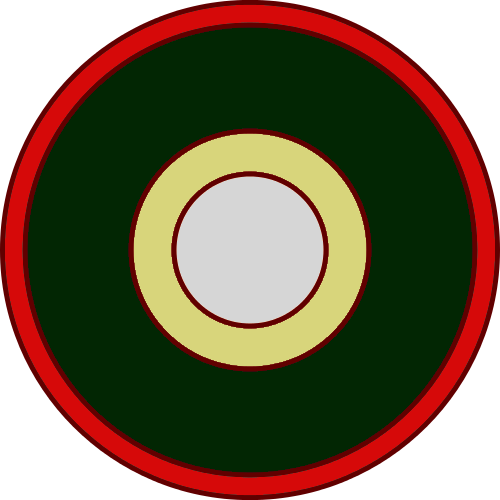 Shield pattern of the the Germaniciani iuniores; it is assigned to his Italian command as the plain Germaniciani.